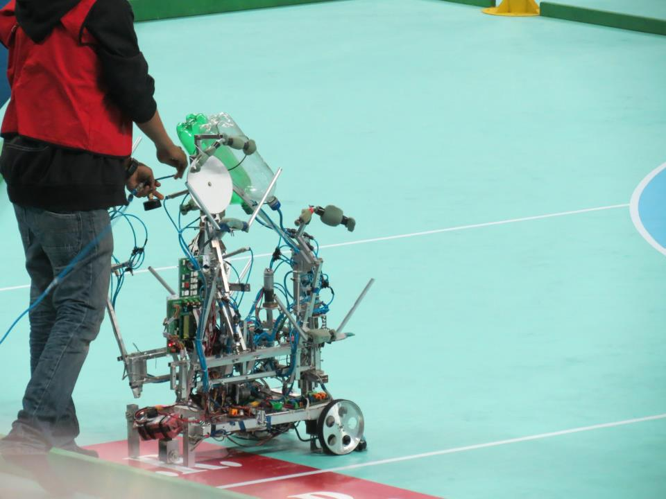 Image of autonomous robot of Nirma at Robocon 2013